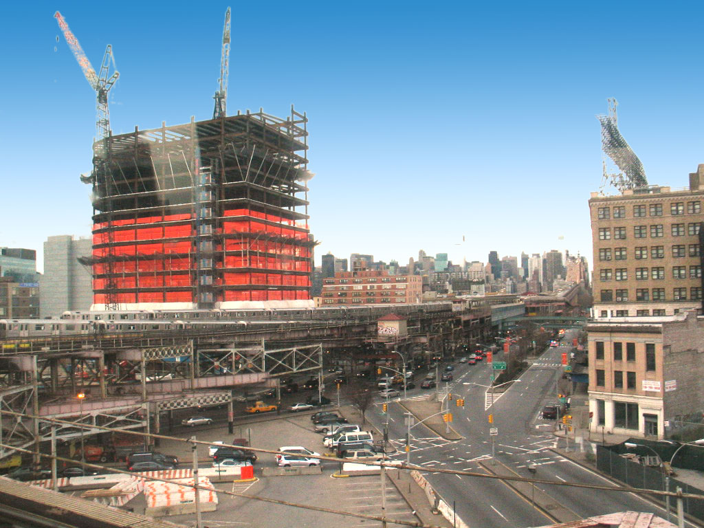 Queensboro Plaza station and Gotham Center office building under construction, as seen from an N train on Astoria line